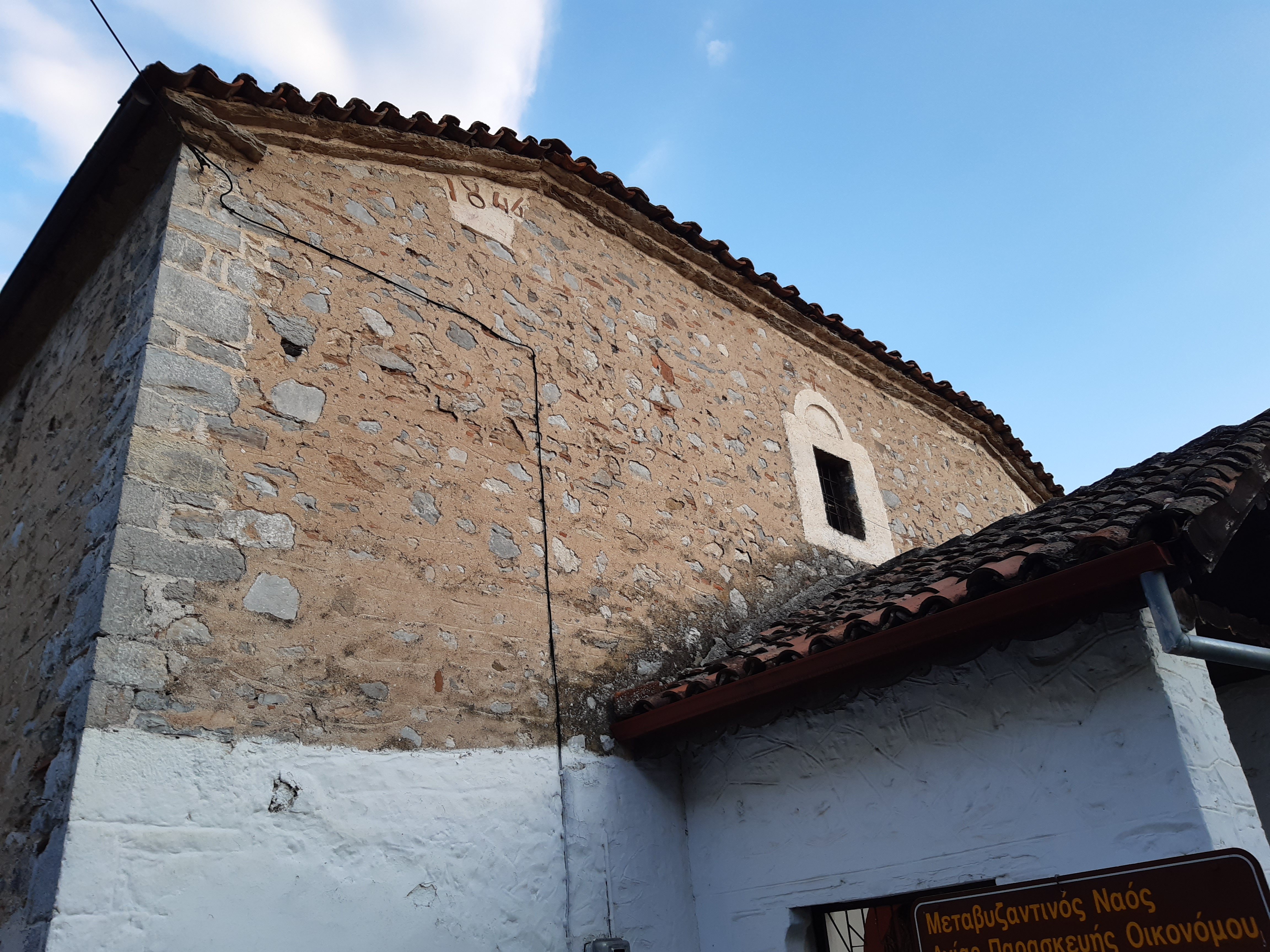 Saint Paraskevi of Ikonomos Church